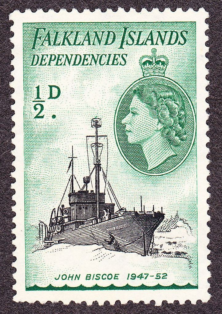 Falkland Is postage stamp, 1954 issue